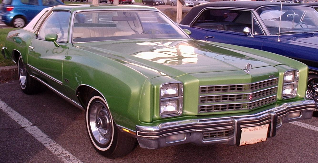 1976 Chevrolet Monte Carlo photographed in Laval, Quebec, Canada at Les chauds vendredis.